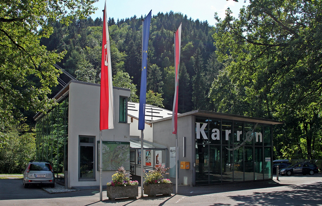 Dornbirn (Austria): valley station of the Mt. Karren cable-car.